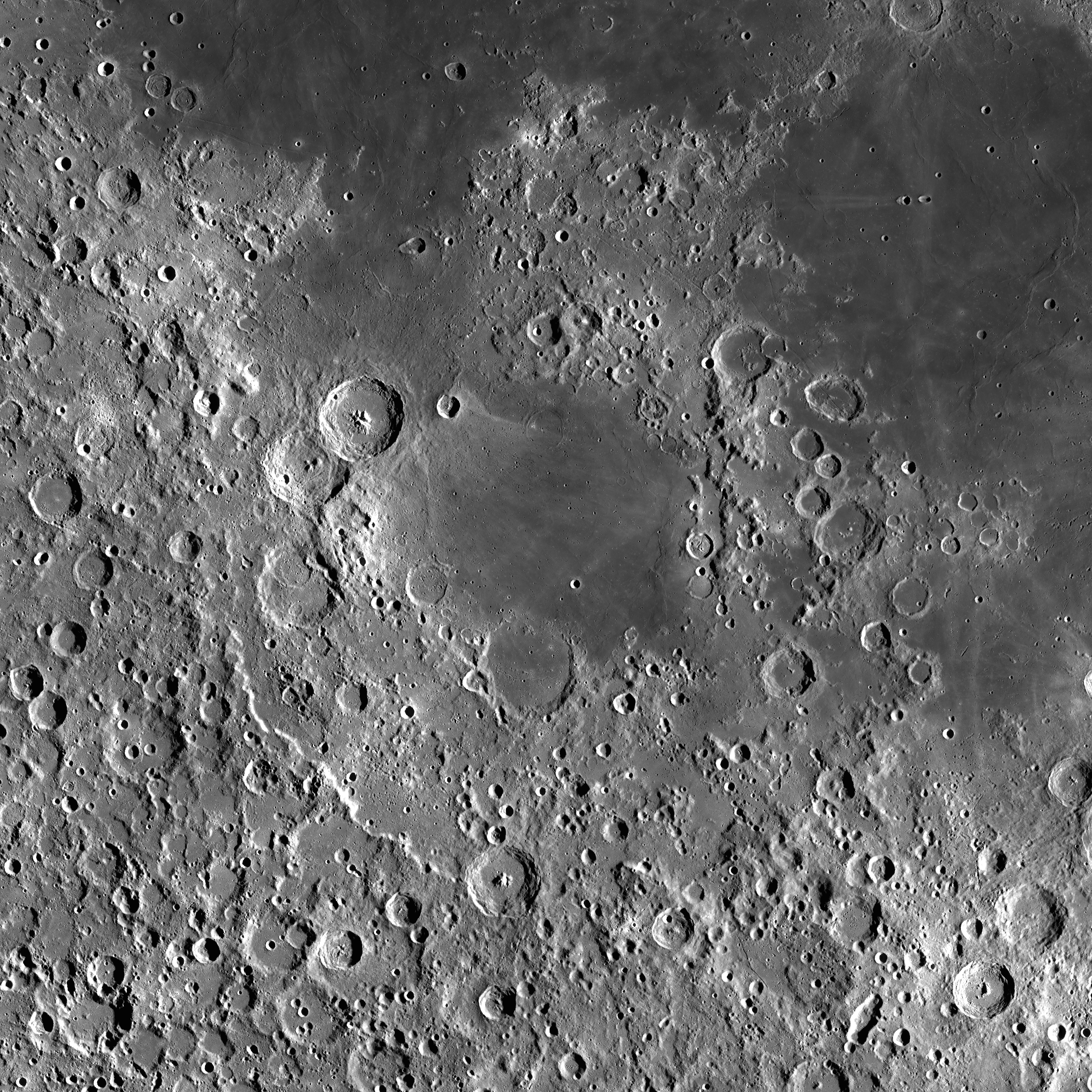 Basin of Mare Nectaris on the Moon. The Mare itself is located in the center (dark spot); basin is 2.5 times bigger. It's edge is best preserved in southwestern part, where it is called Rupes Altai. Mosaic of photos by Lunar Reconnaissance Orbiter, made with Wide Angle Camera. Size of the image is 1300×1300 km, north is up. The image has the same borders and resolution as a topographic map Mare Nectaris (GLD100).jpg.